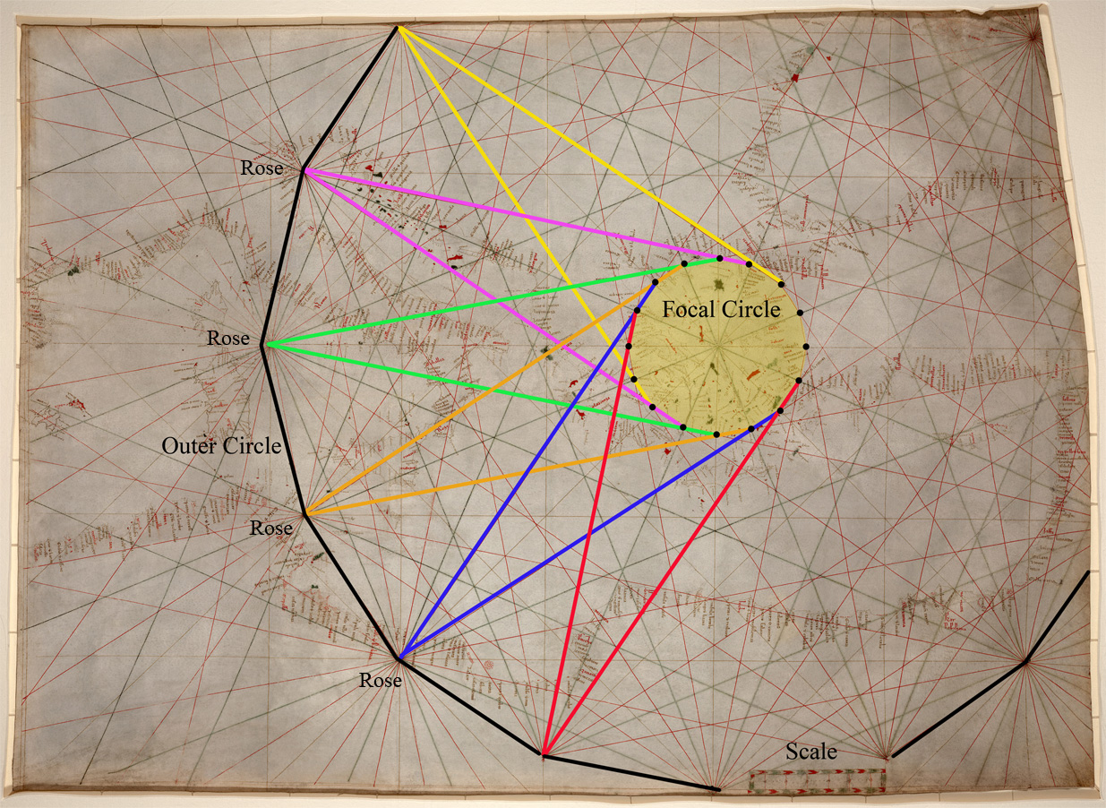 Illustration of the construction of the compass or rhumb line grid typical of portolan charts, on the anonymous Genoese nautical chart (c.1325-50) held by the Library of Congress, Washington DC.